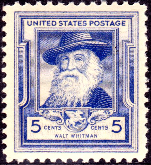 Walt_Whitman_1940_Issue-5c.jpg